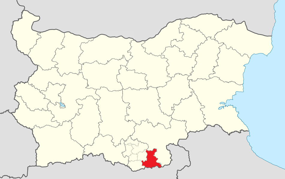 Location map of Krumovgrad Municipality within Bulgaria and Kardzhali province